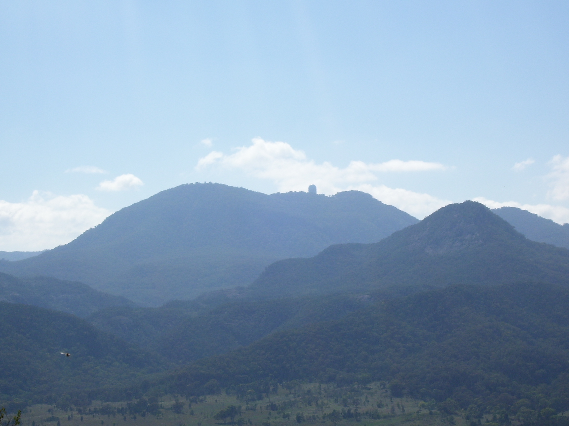 Siding Spring Mountain viewed from Belougery Split Rock. 3x optical zoom.